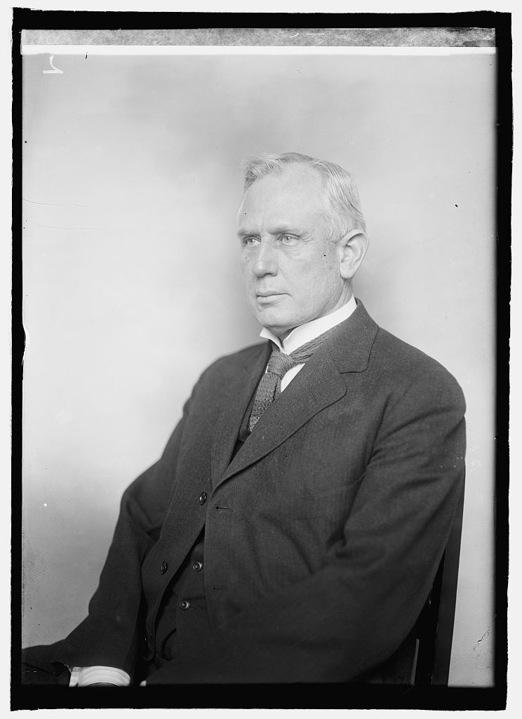 Kentucky Congressman Ben Johnson